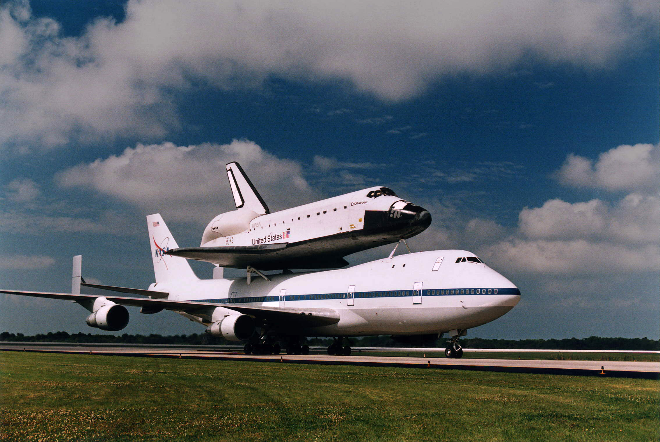 The Space Shuttle Orbiter Endeavour arrives at KSCs Shuttle Landing Facility atop NASAs Boeing 747 Shuttle Carrier Aircraft (SCA) as it returns from Palmdale, Calif., after an eight-month Orbiter Maintenance Down Period (OMDP).